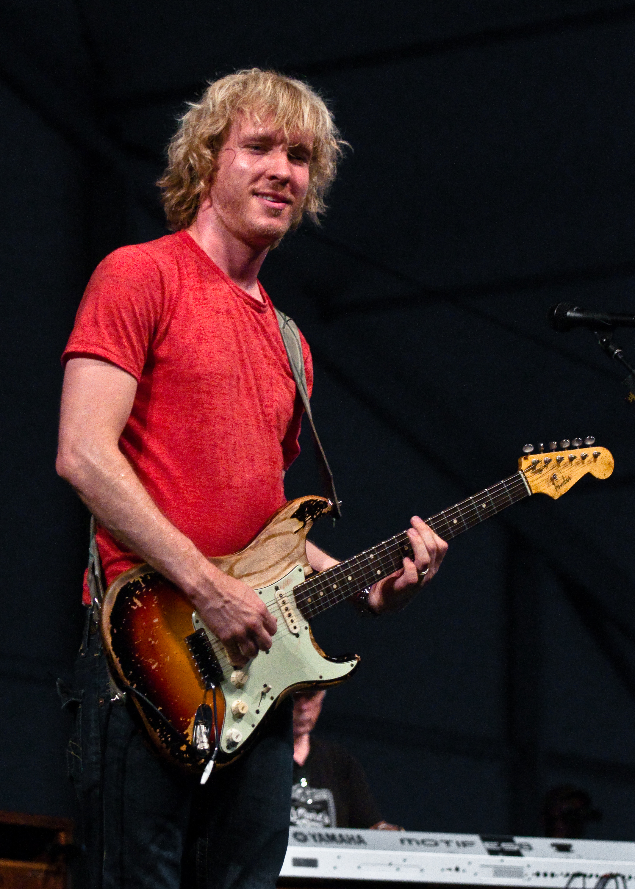 Kenny Wayne Shepherd at New Orleans Jazz Fest